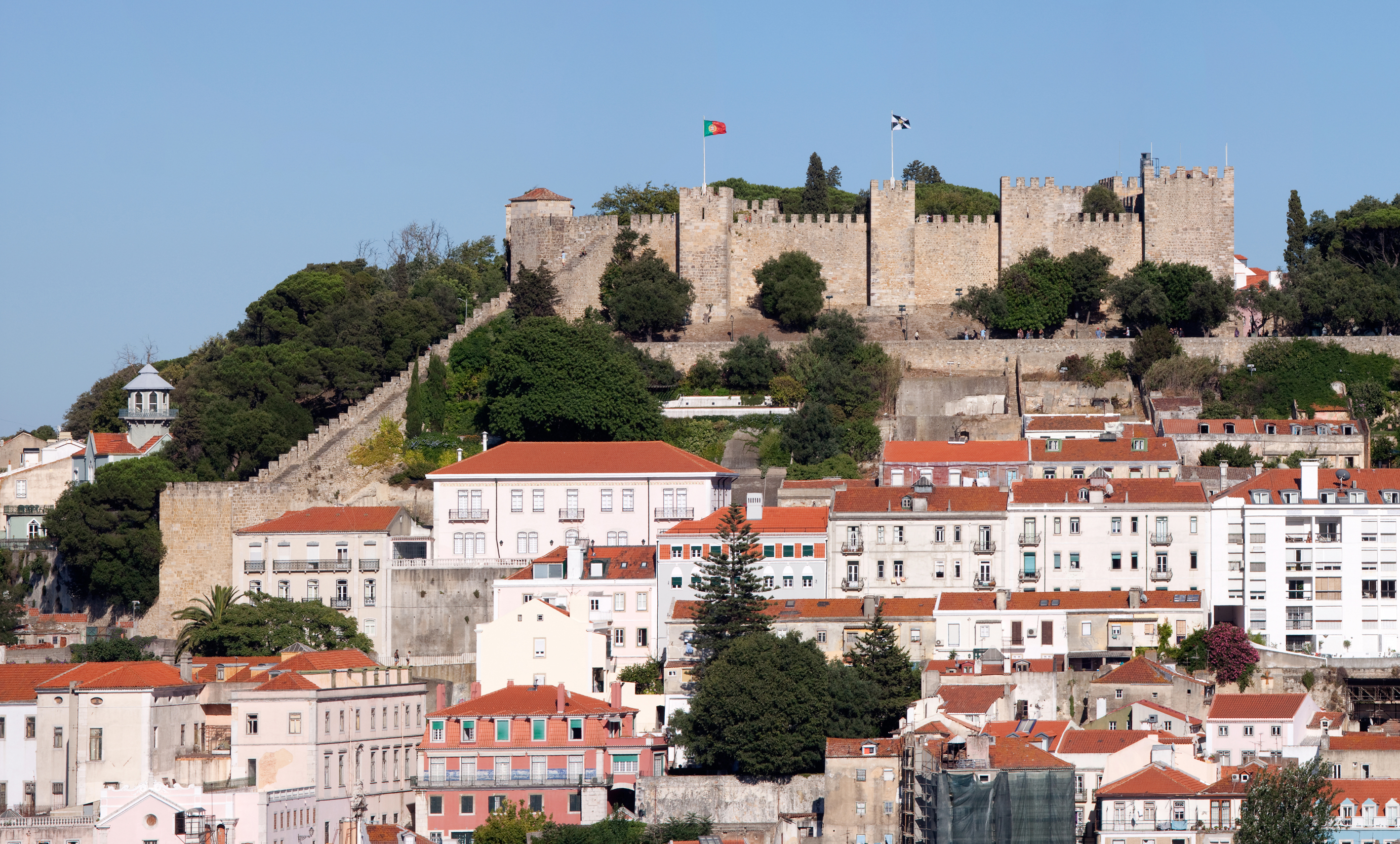 The Castle of São Jorge occupies a commanding position overlooking the city of Lisbon, the capital of Portugal, and the Tagus River beyond. The fortified citadel, which dates from medieval times, is located atop the highest hill in the historic center of the city. The castle is one of the main historical and touristic sites of Lisbon.